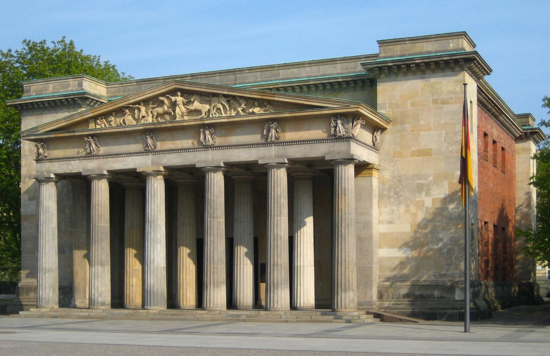 The New Guard House (Neue Wache), 1816-1818 by Karl Friedrich Schinkel; since it serves as the "Central Memorial of the Federal Republic of Germany for the Victims of War and Tyranny". The New Guard House has been dedicated as a historic landmark.